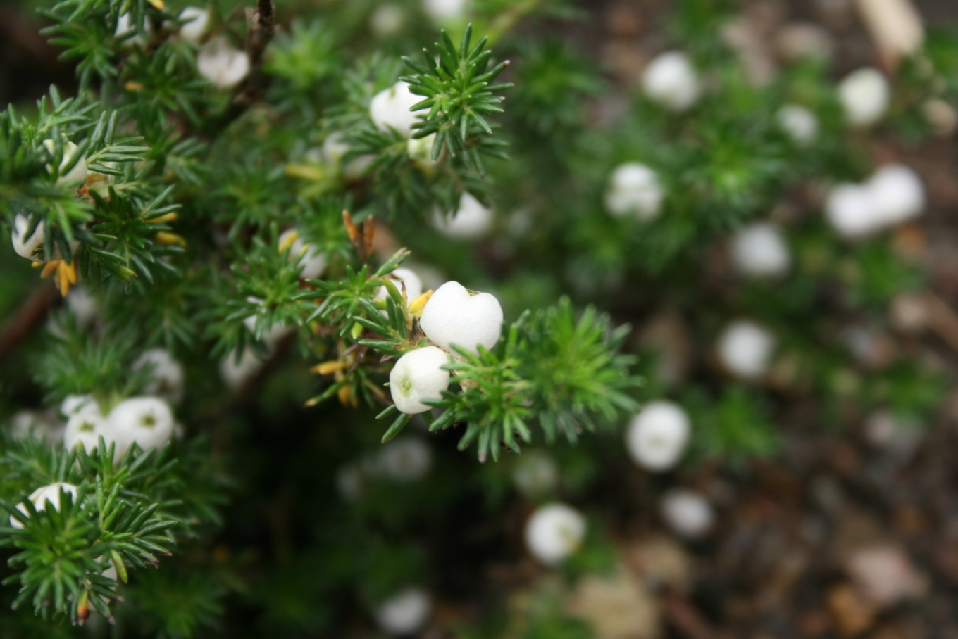 Margyricarpus pinnatus: Berries.